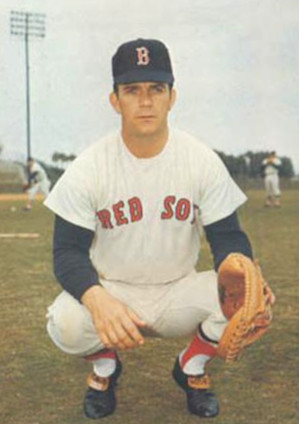 Professional baseball player Russ Gibson